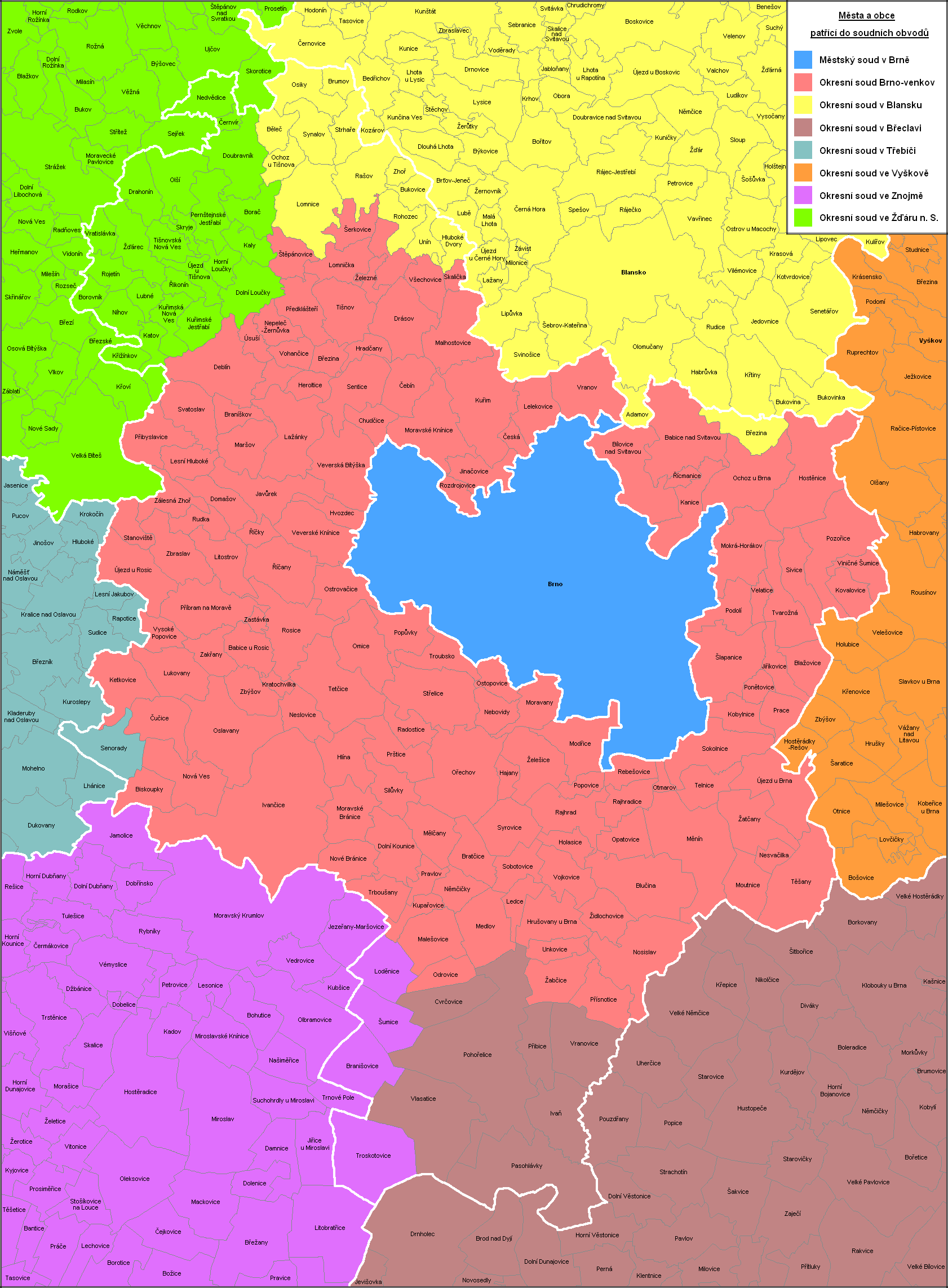 Districts of southmoravian courts